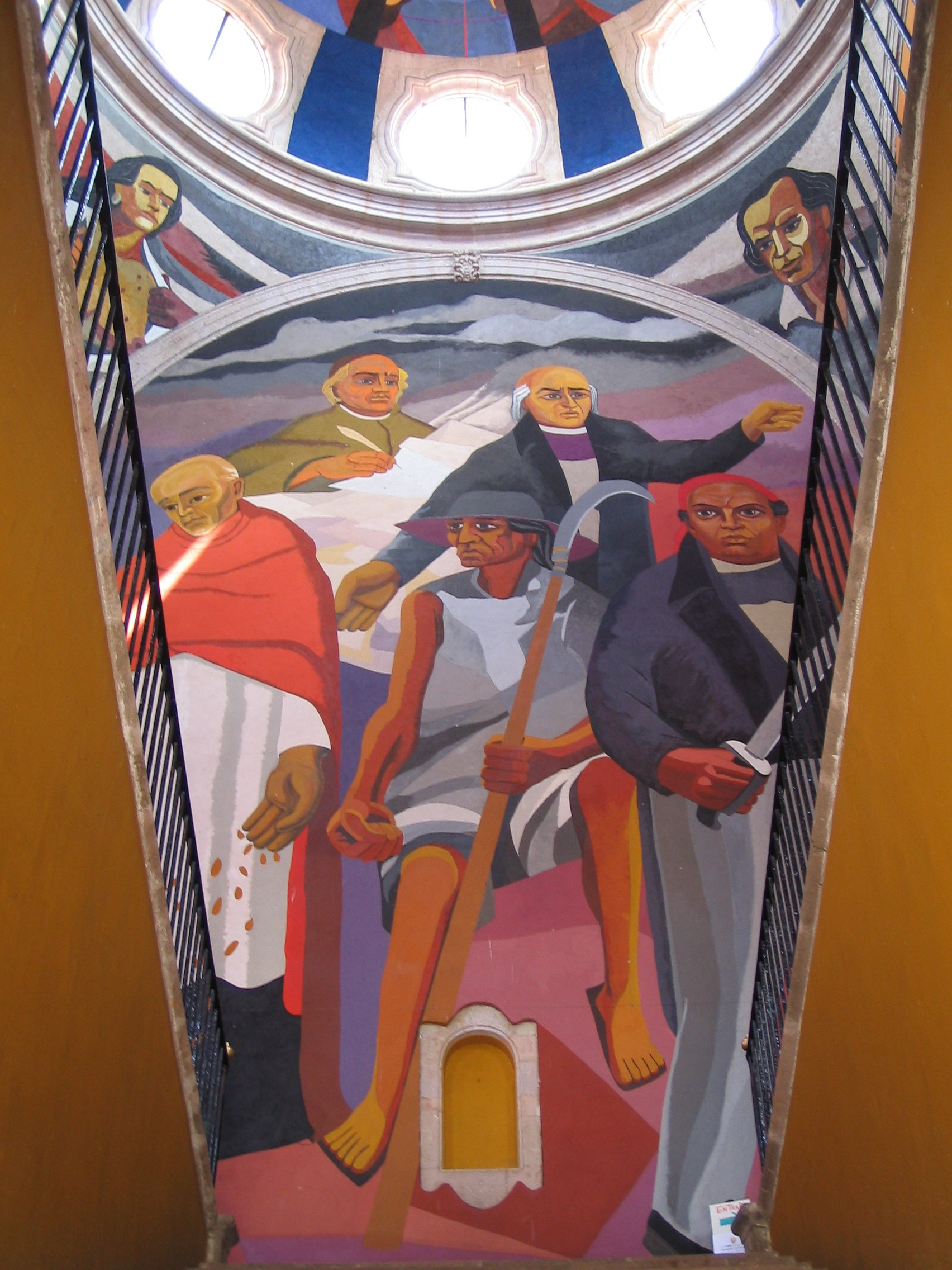 Mural painting in the main staircase of Palacio Clavijero in the historic center of Morelia, Michoacan, Mexico